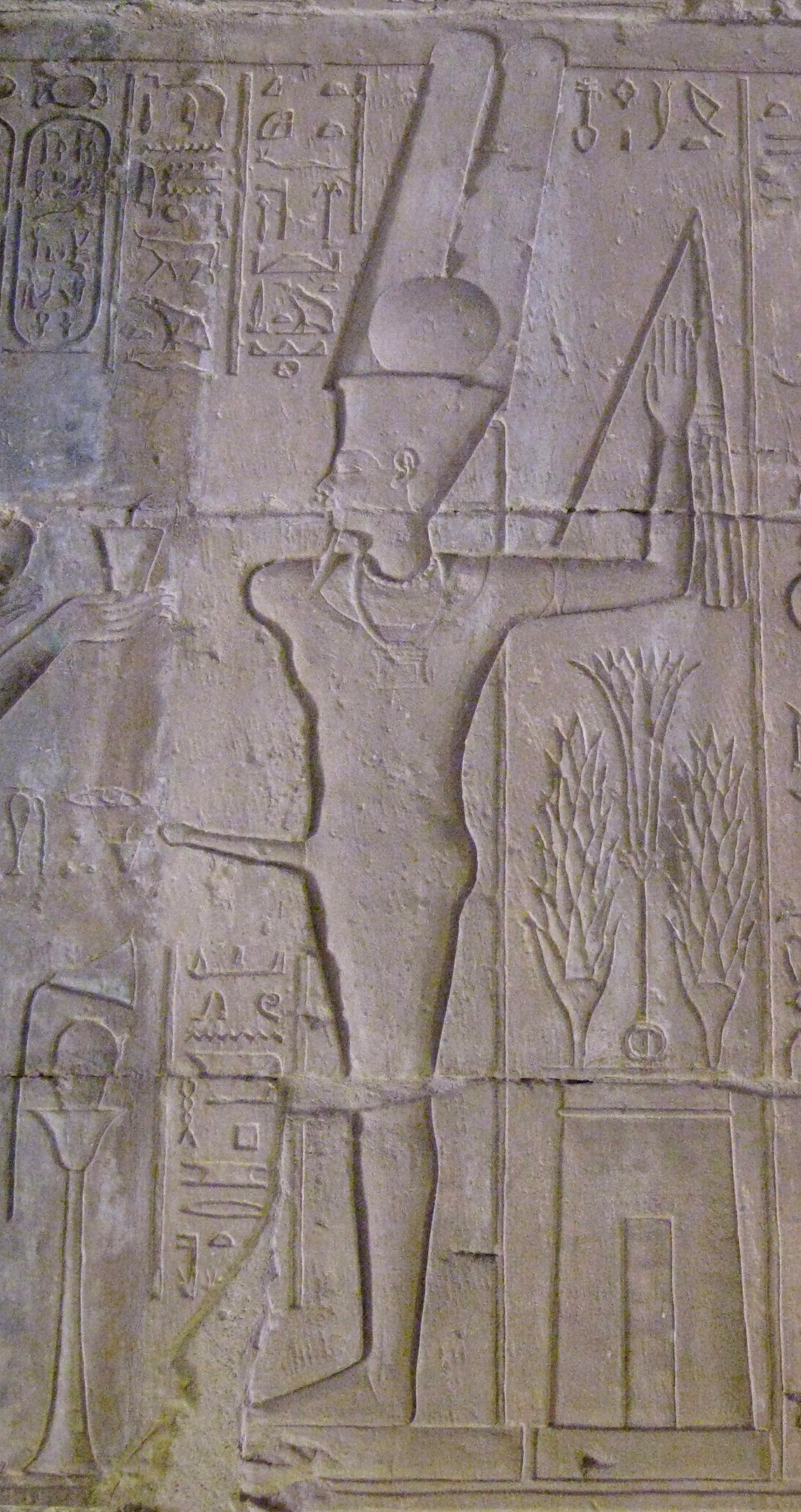 Amun-Ra kamutef. Deir el Medina (The Place of Truth)